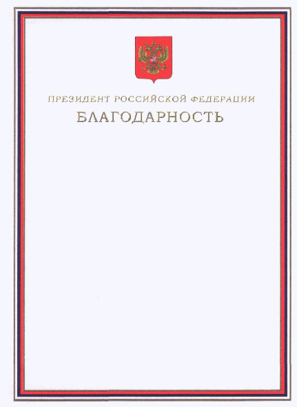 government